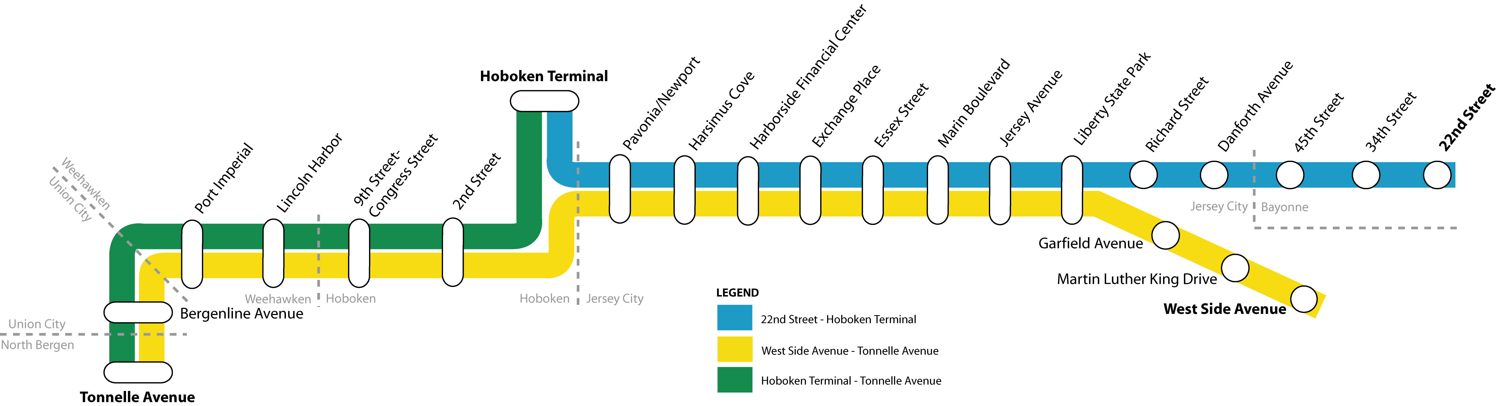 Stylized map of Hudson-Bergen Light Rail system